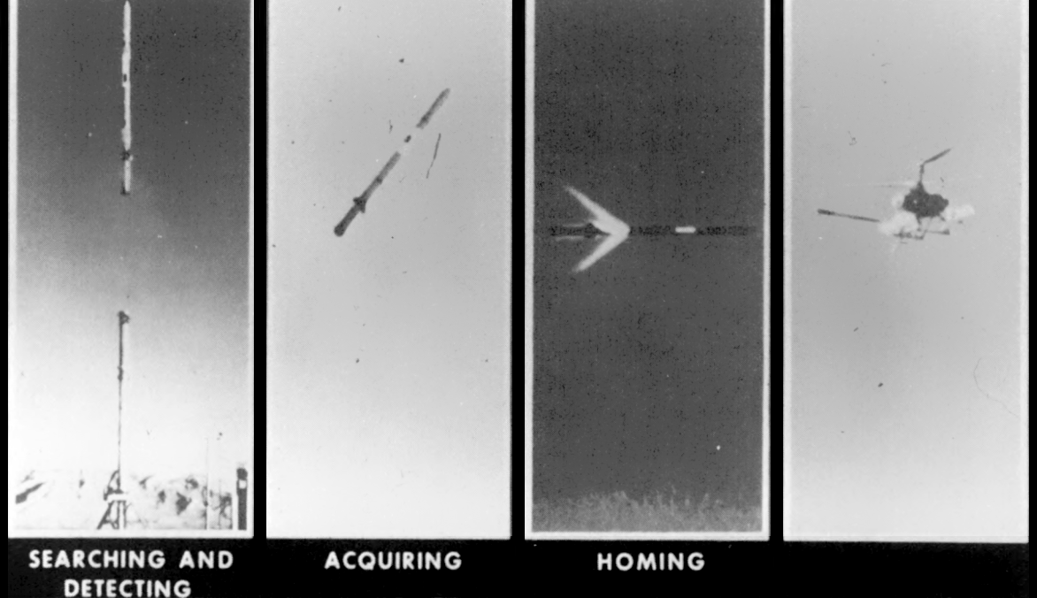 SIAM surface-to-air missile launch-to-hit sequence, during the flight test phase of the program, conducted at the WSMR with QH-50C drone used as a primary target: searching and detecting; acquiring; homing; direct hit. Result: target destroyed.